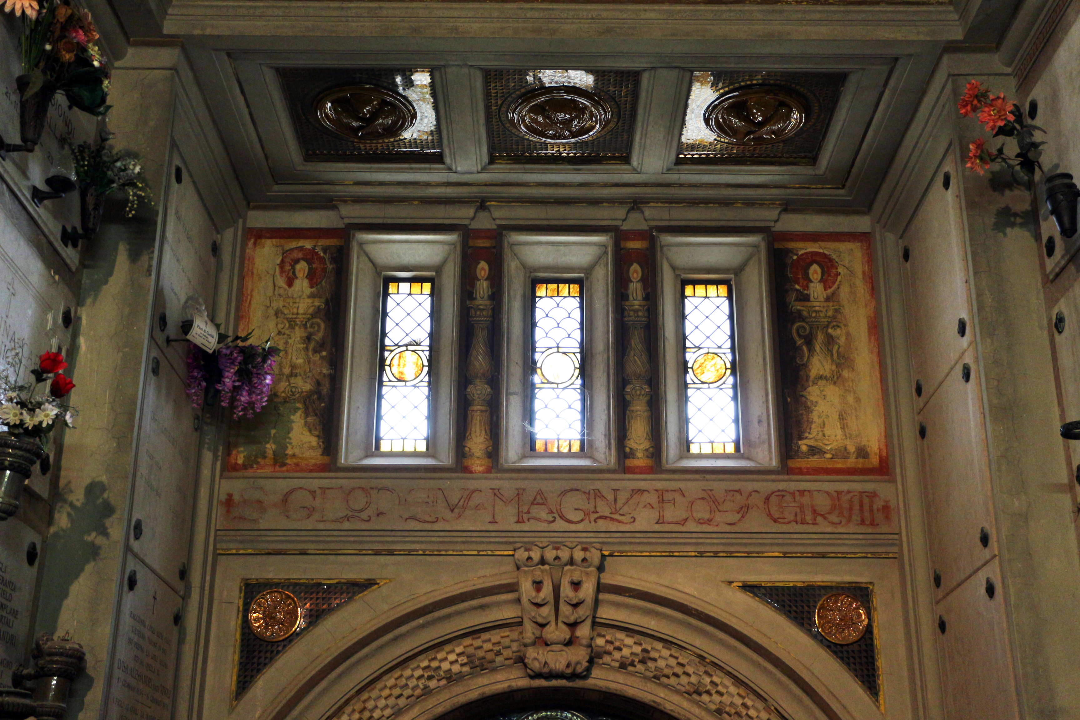 Cimitero Monumentale della Misericordia (Antella)